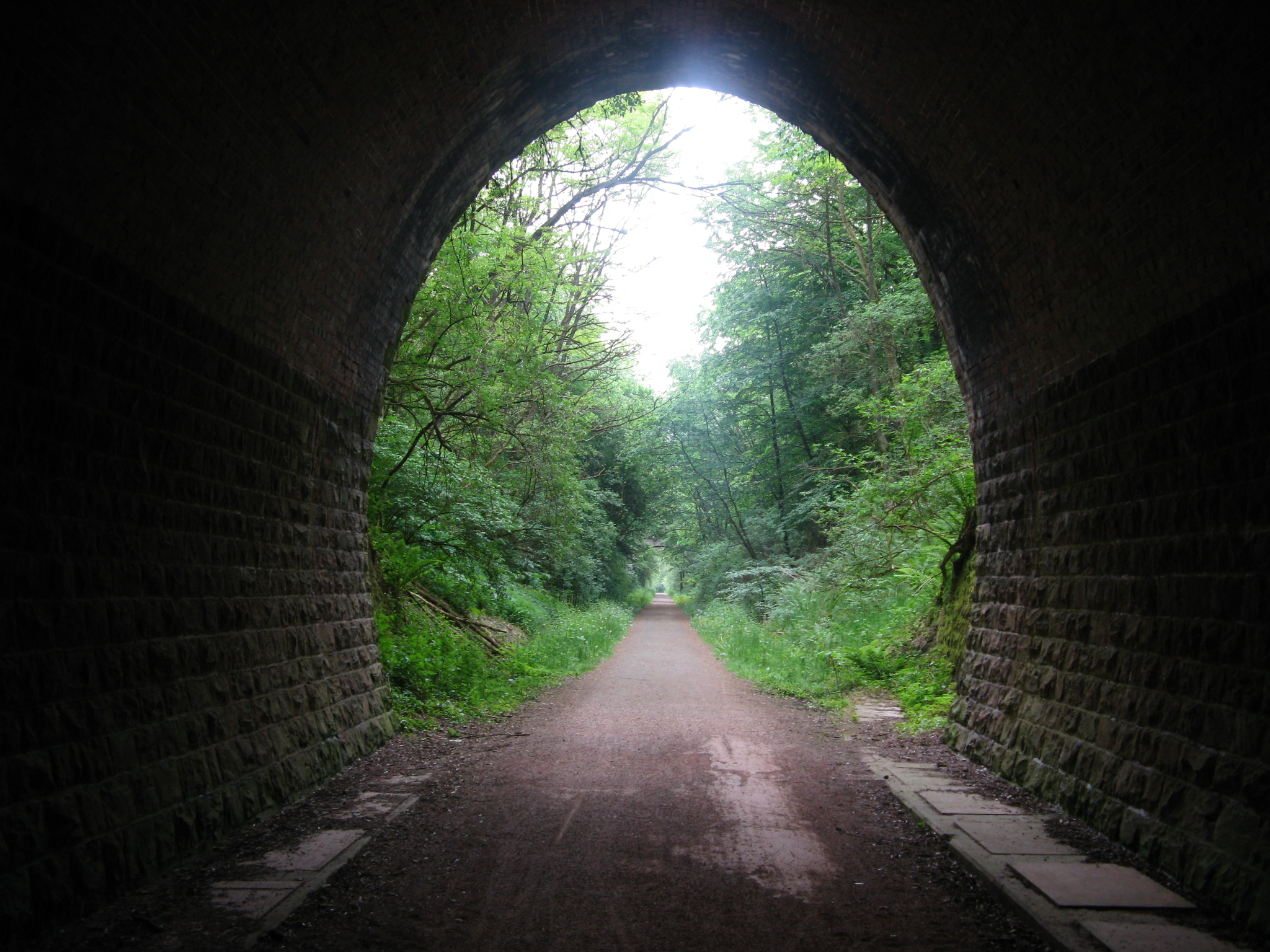 Former train tunnel Oberkirchen, Saarland/Germany